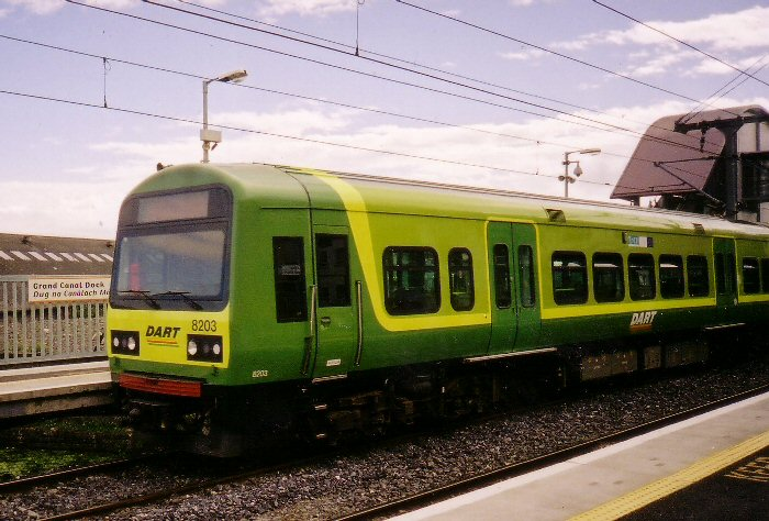 Dublin Area Rapid Transit 1500 V= Unit No. 8203 at Grand Canal Dock station.